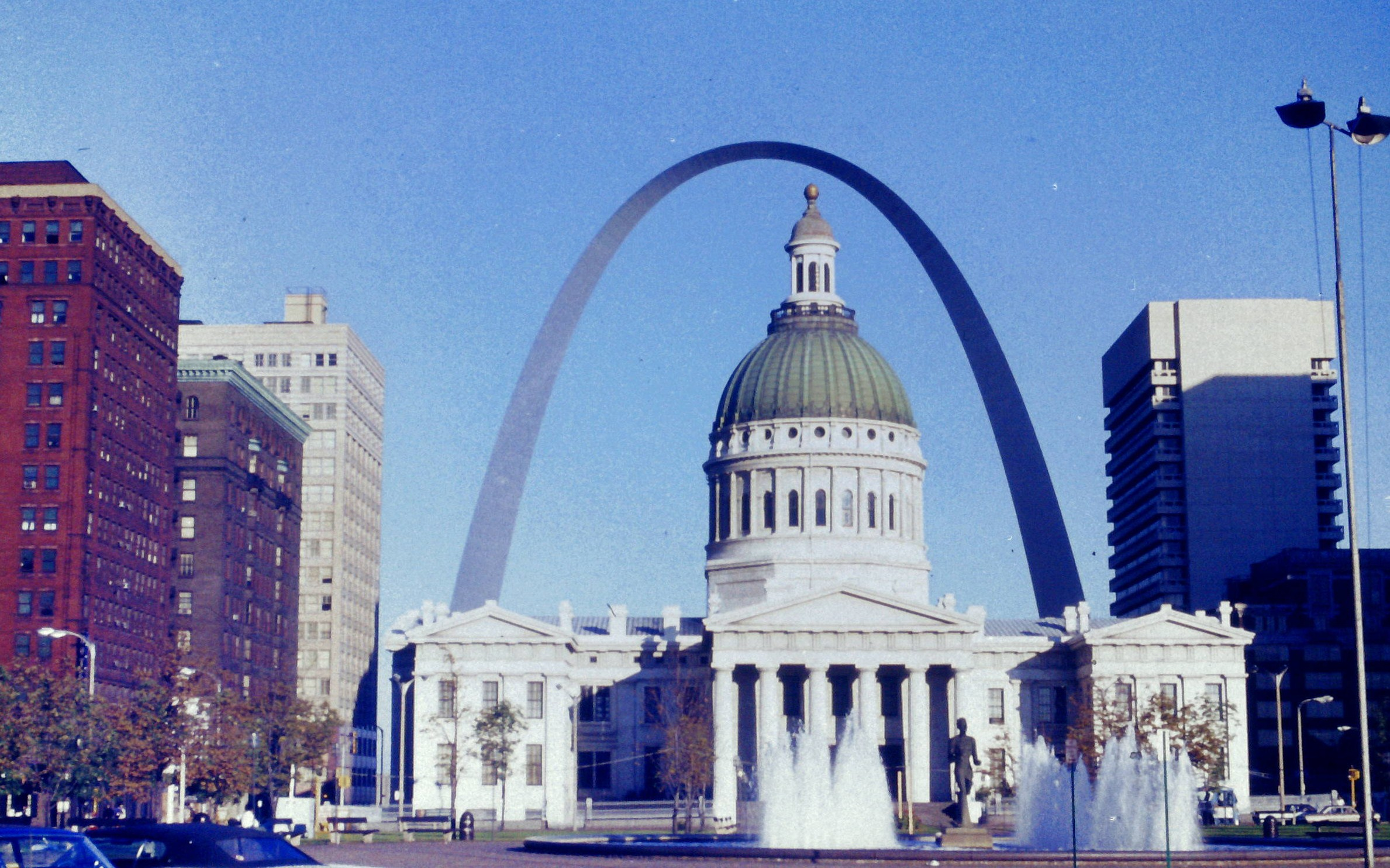 Downtown Saint Louis with Gateway Arch